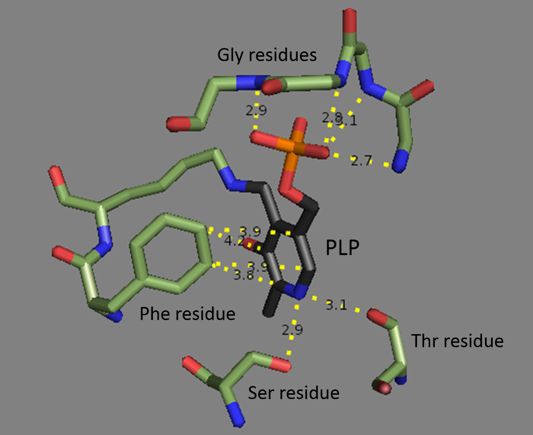 The binding site for PLP in threonine deaminase with residue labels